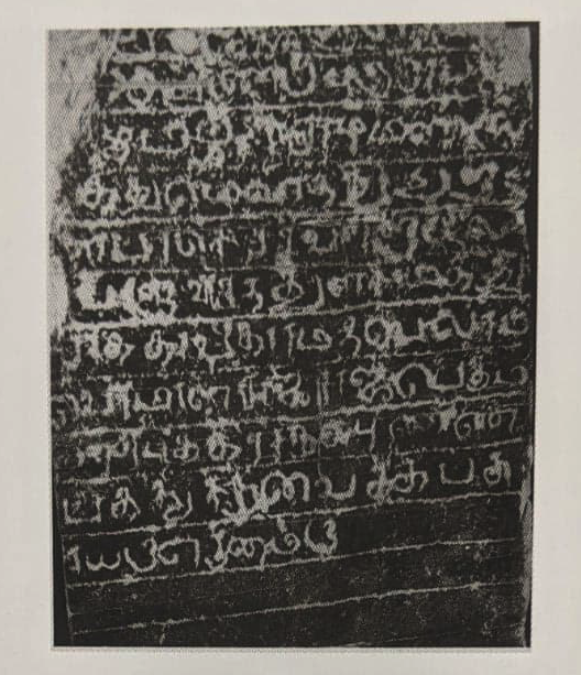 Velgam Vihara Tamil inscription, 11th century AD